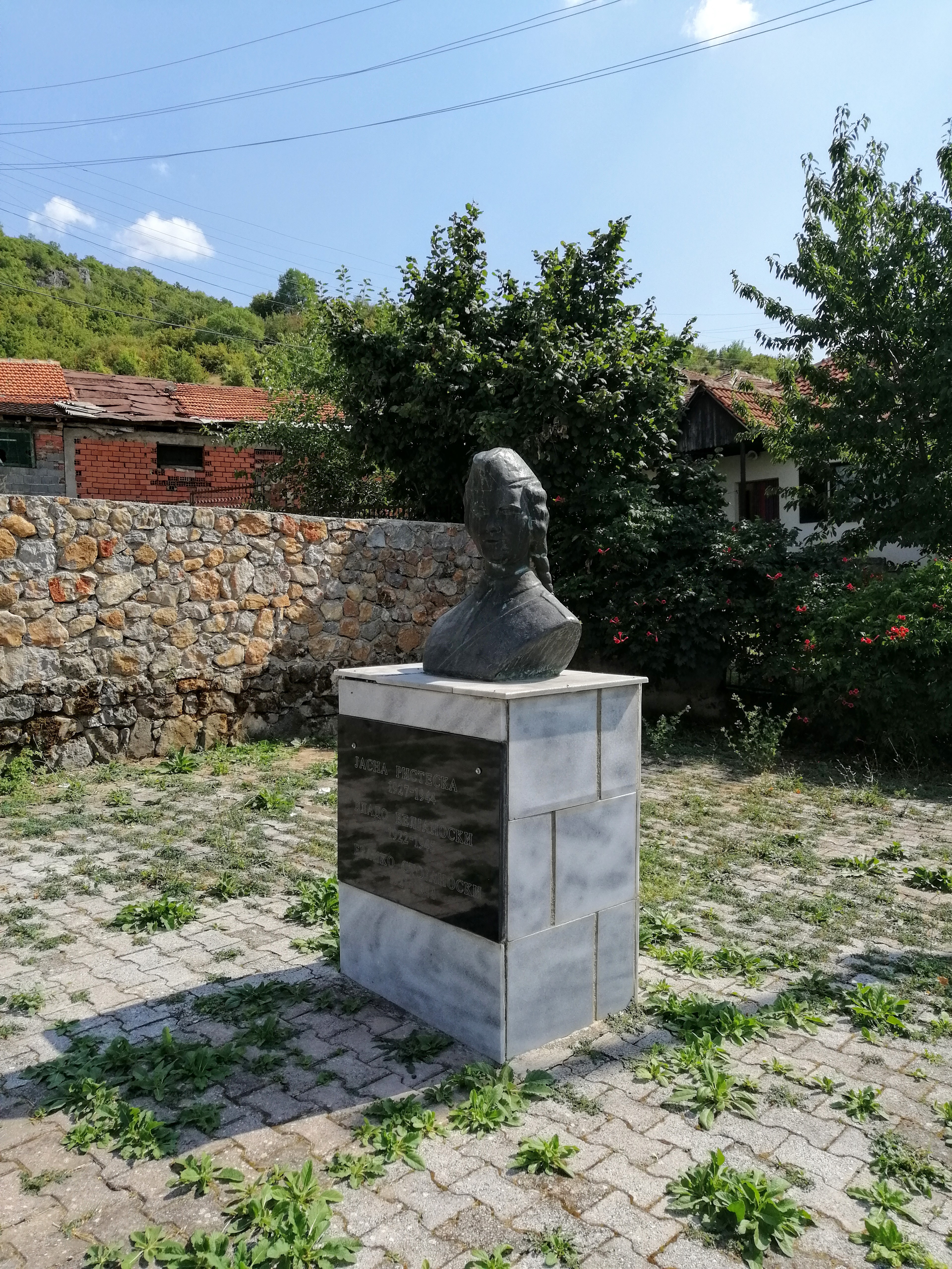 Monument in the village Ramne